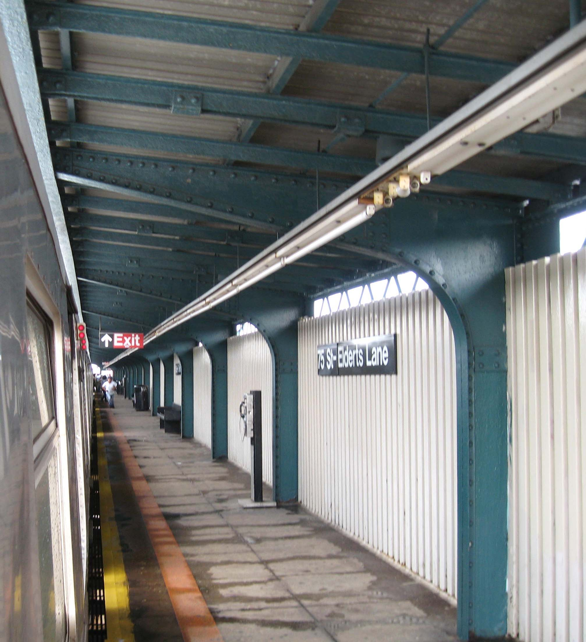 Looking east on northbound platform of en:75th Street (BMT Jamaica Line) on a rainy midday.